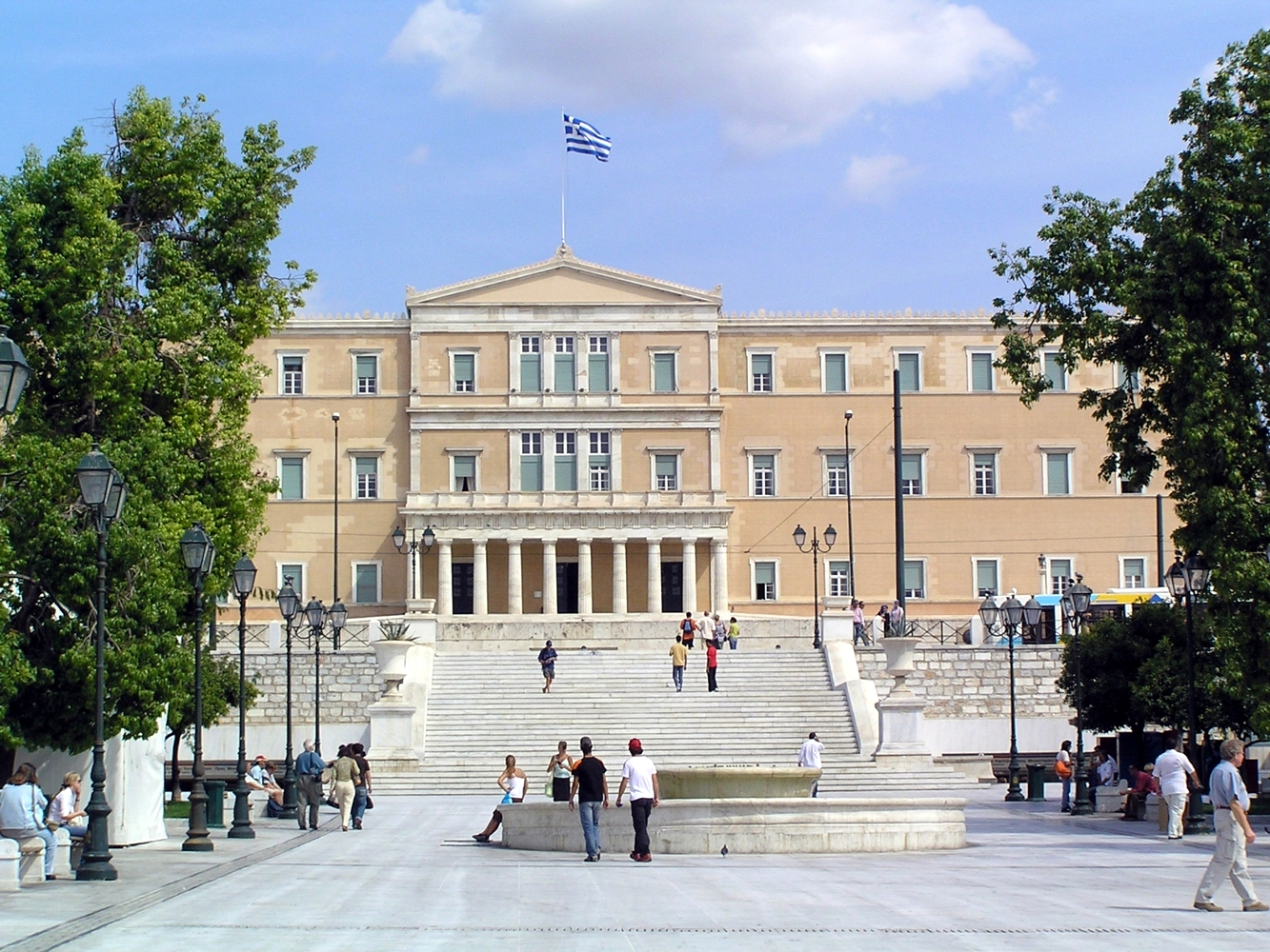 The Hellenic Parliament in Athens, Greece